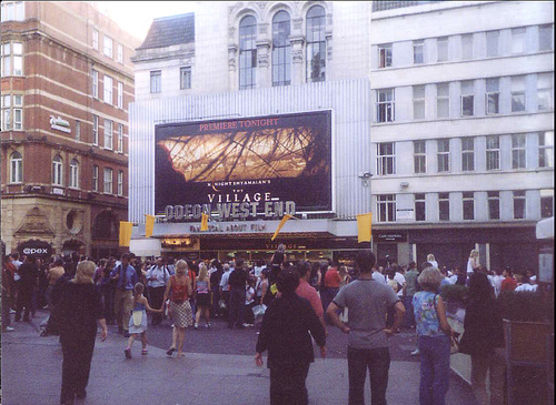 M. Night Shyamalan for a London Premiere (the Village)